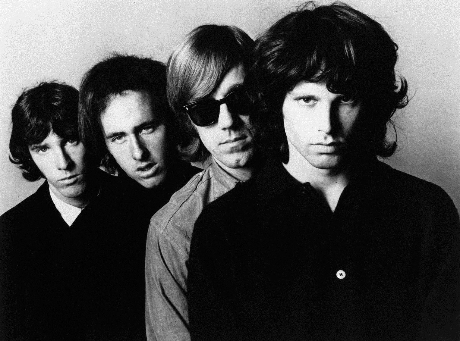 Promotional photo of The Doors. From left-John Densmore, Robby Krieger, Ray Manzarek, Jim Morrison.